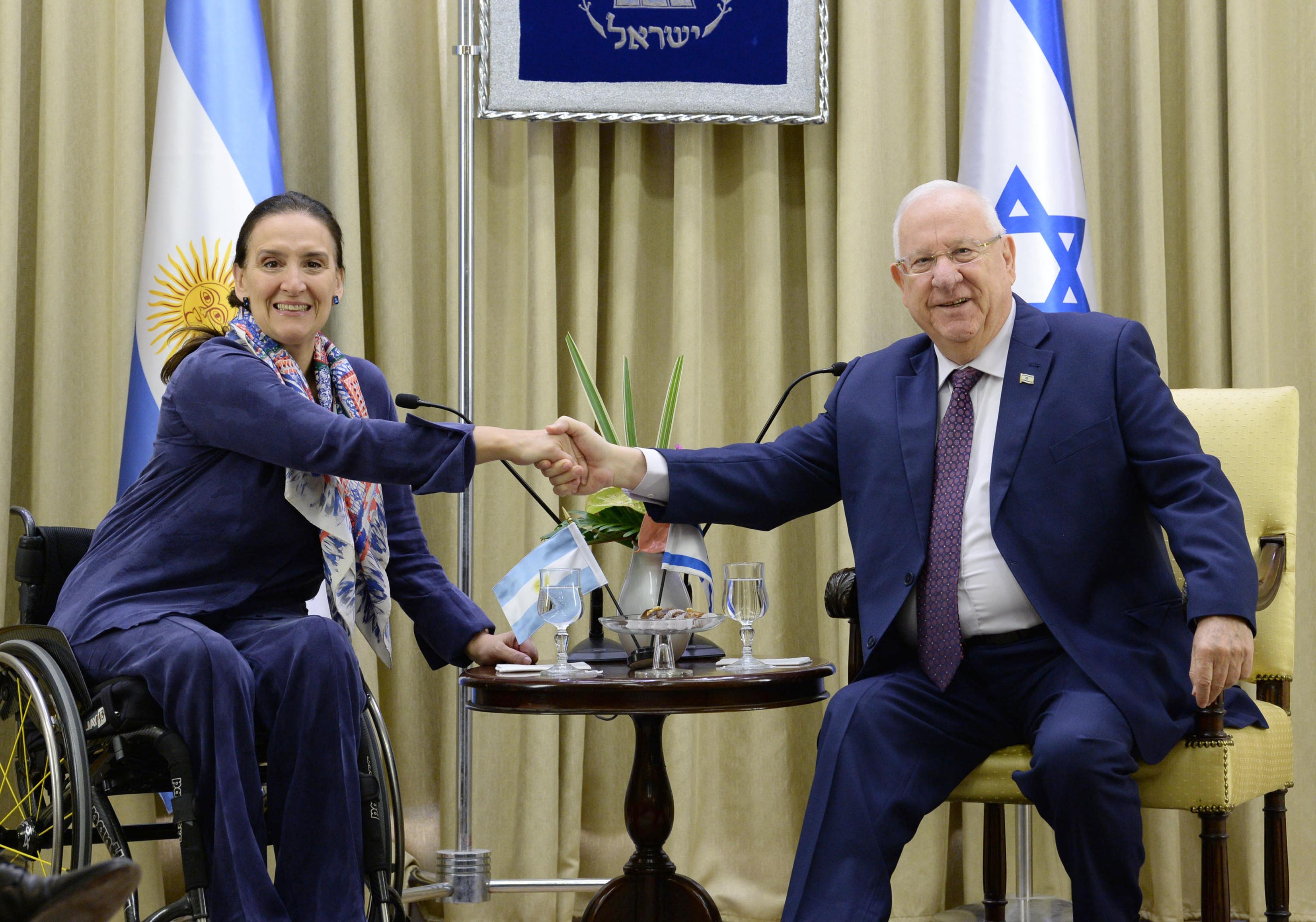 President of Israel, Reuven Rivlin, at a working meeting with the Vice President and President of Argentina and the President Senate of Argentina, Gabriela Michetti who visited Israel. Thursday, January 11, 2018. Photo Credit: Mark Neiman / GPO.